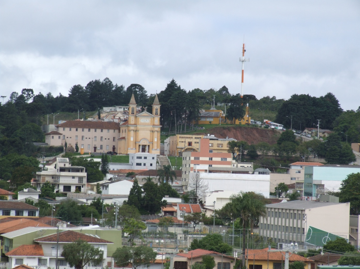 Partial sight of the city, municipality of Colombo, state of Paraná, Brazil